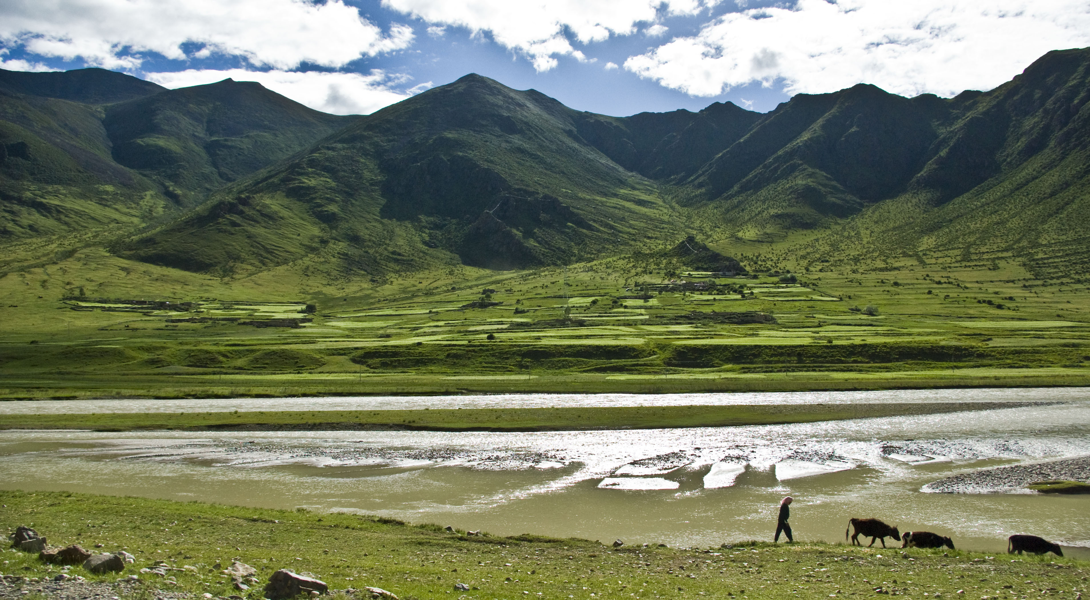 Landscapes of Tibet